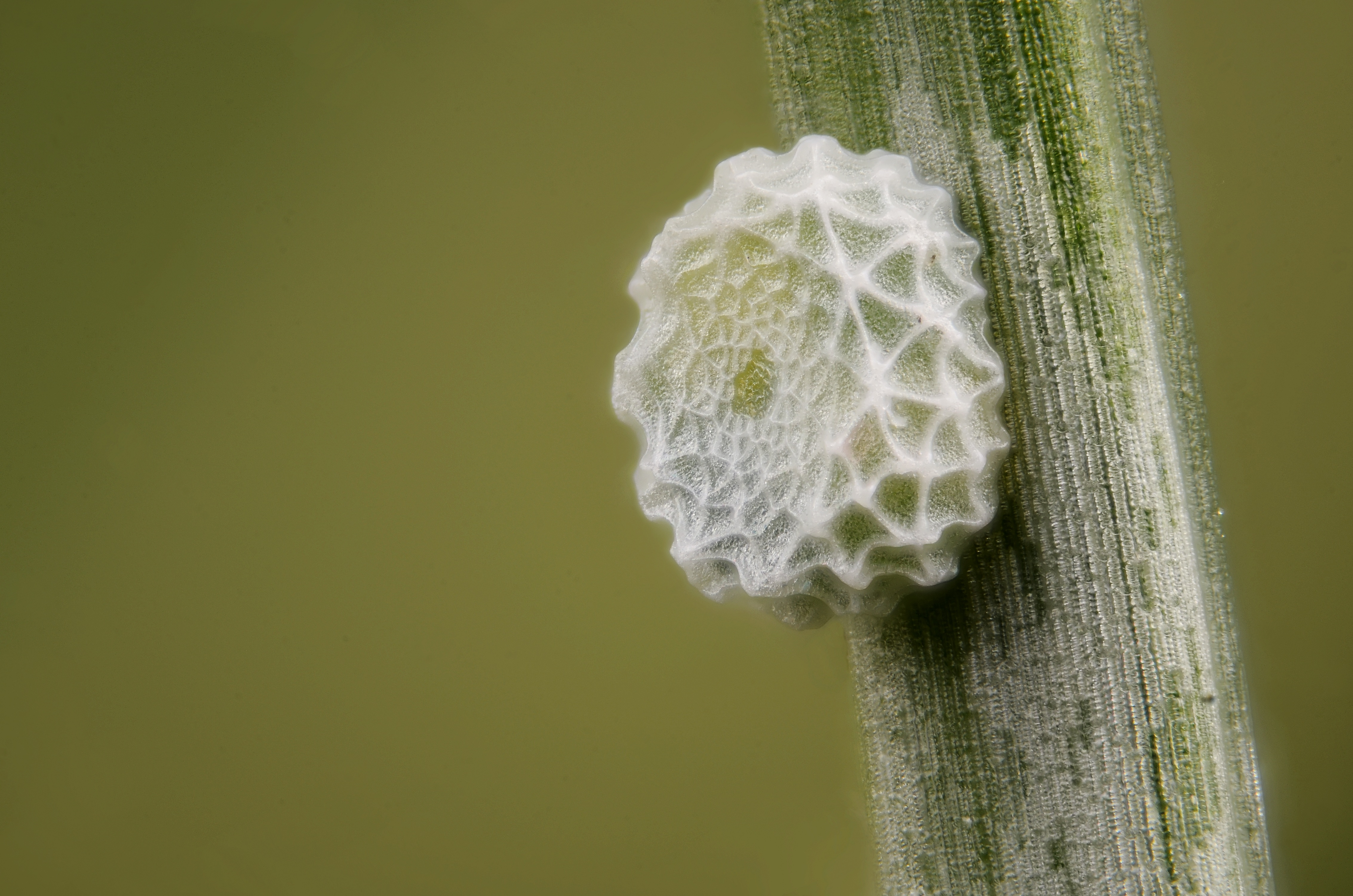 Egg of the butterfly Lysandra coridon (=Polyommatus coridon) on a Festuca leaf. With thanks to Stéphane Claerebout who found it. Scale : egg width = 0.5 mm Technical settings : - focus stack of 59 images - microscope objective (Nikon achromatic 10x 160/0.25) on bellow